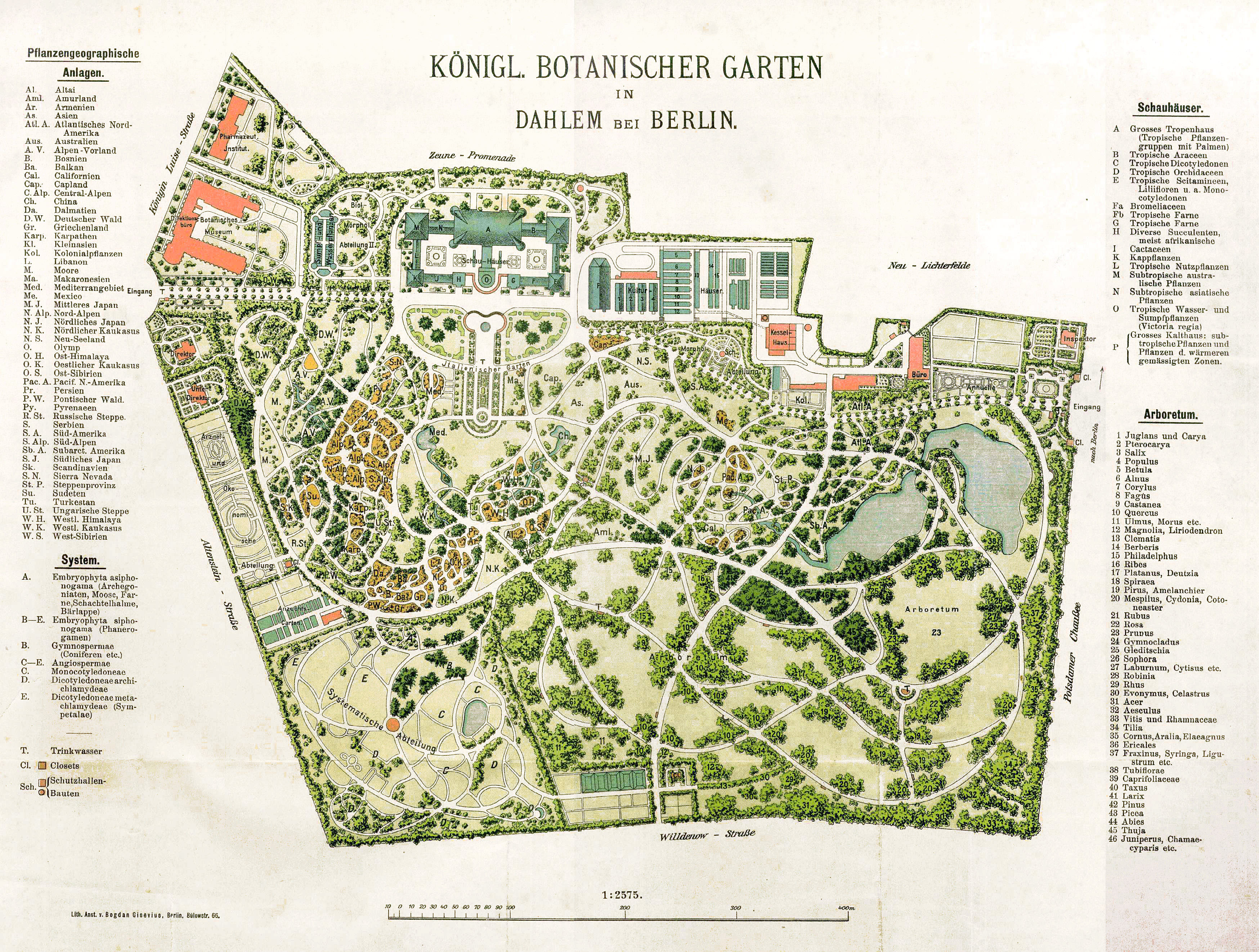 Botanic Garden and Botanical Museum Berlin-Dahlem Native nameBotanischer Garten, Berlin-DahlemLocationBerlinCoordinates52° 27′ 18″ N, 13° 18′ 13″ E Established1899Web page control : Q163255 VIAF: 122152673 LCCN: n80146344 GND: 2135864-3 WorldCat Gartenplan